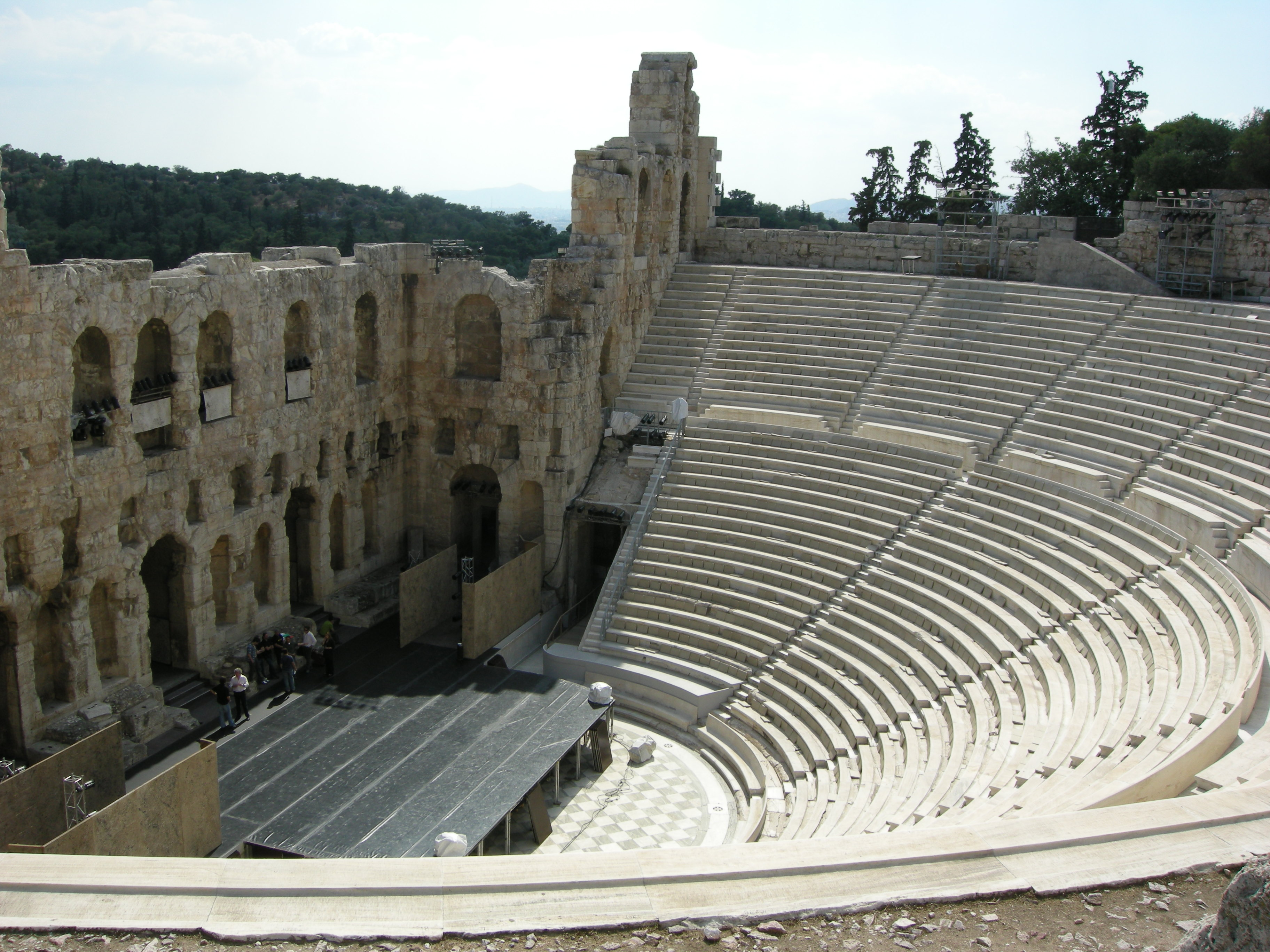 Theatre of Herodes Atticus